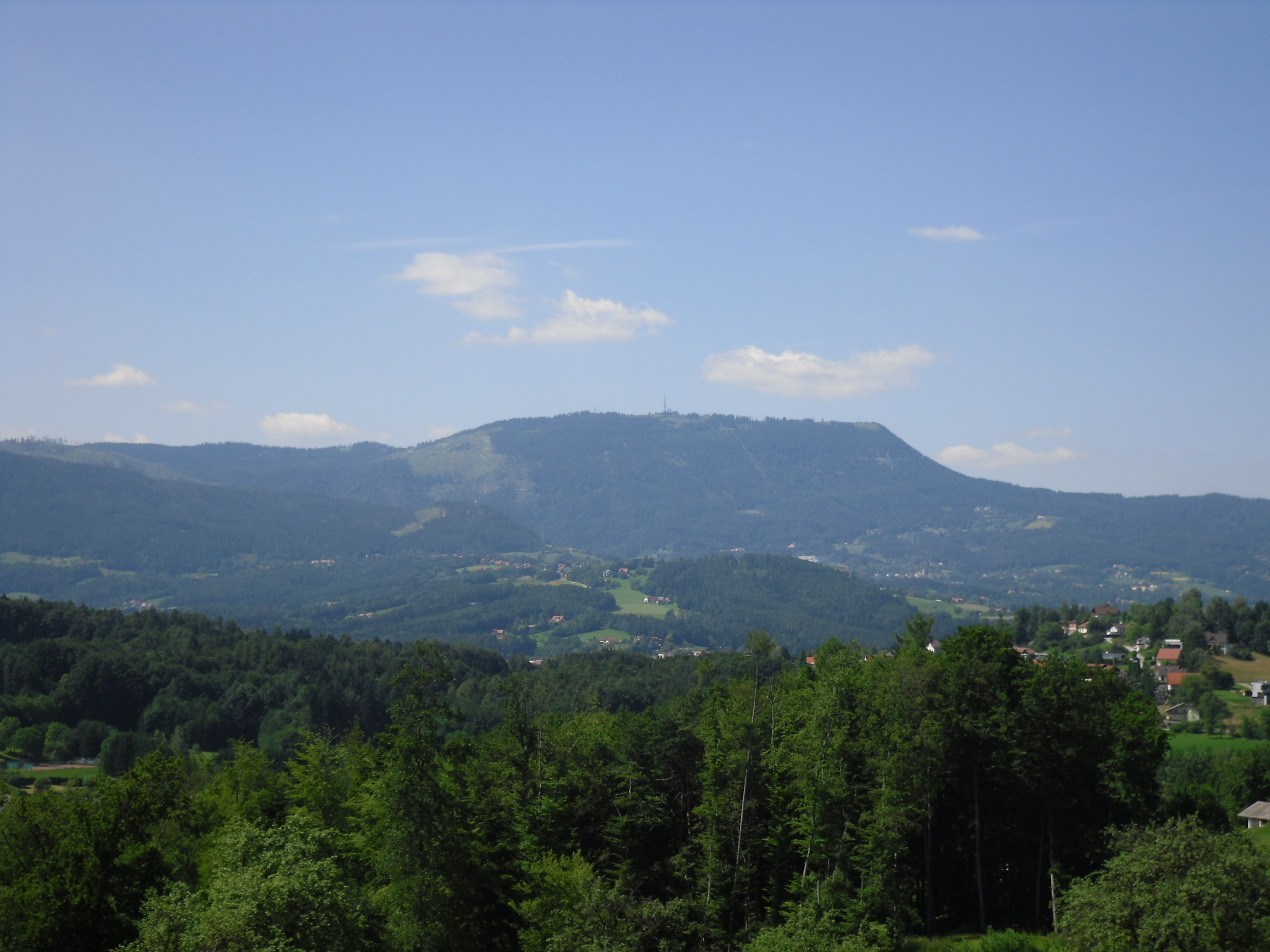 The top of Schöckl, near Graz, from the East.